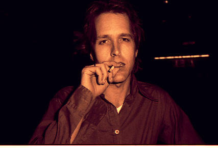 Chuck Prophet (ex.Green On Red) A few years ago, he's coming to Japan, I took photo at near the club Thumb's Up Yokohama